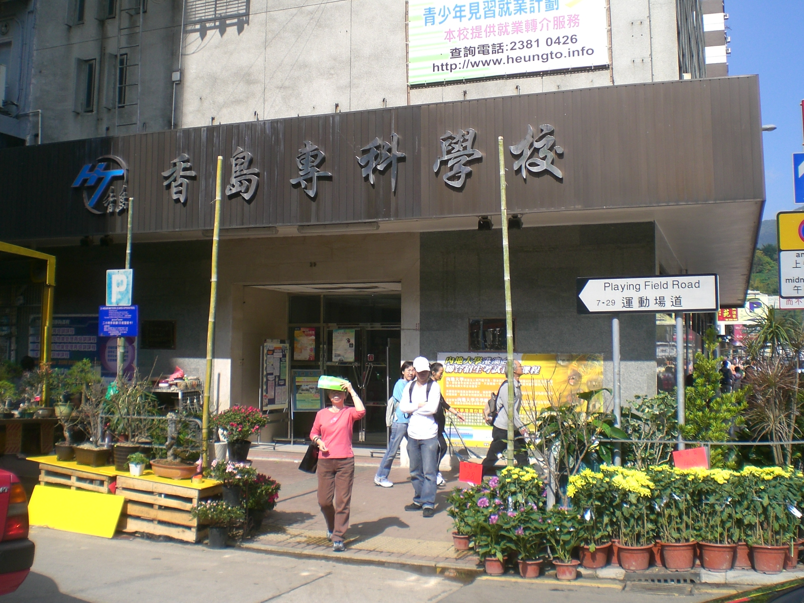 香島中學, 運動場道近洗衣街231號, Heung To Middle School, Sai Yee Street, Prince Edward, Kowloon, Hong Kong.